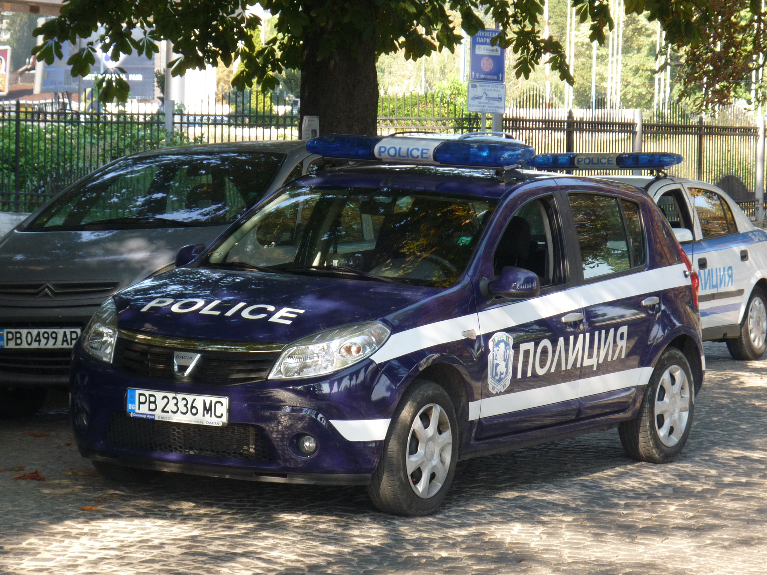 Dacia Sandero - Police car - Plovdiv, Bulgaria